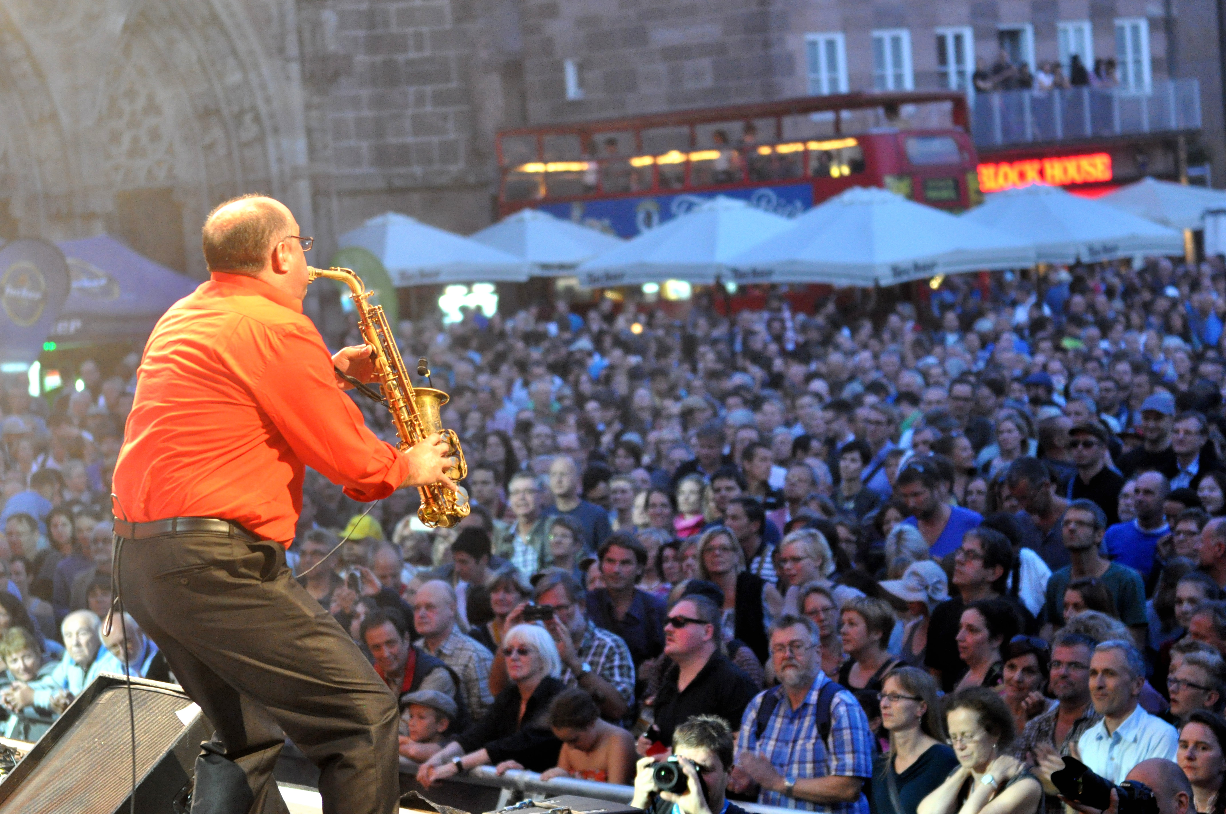 Fanfare Ciocărlia (ROM), Hauptmarkt stage, 40th music festival 'Bardentreffen' 2015 at Nuremberg, Germany Festivalsommer This photo was created with the support of donations to Wikimedia Deutschland in the context of the CPB project "Festival Summer".